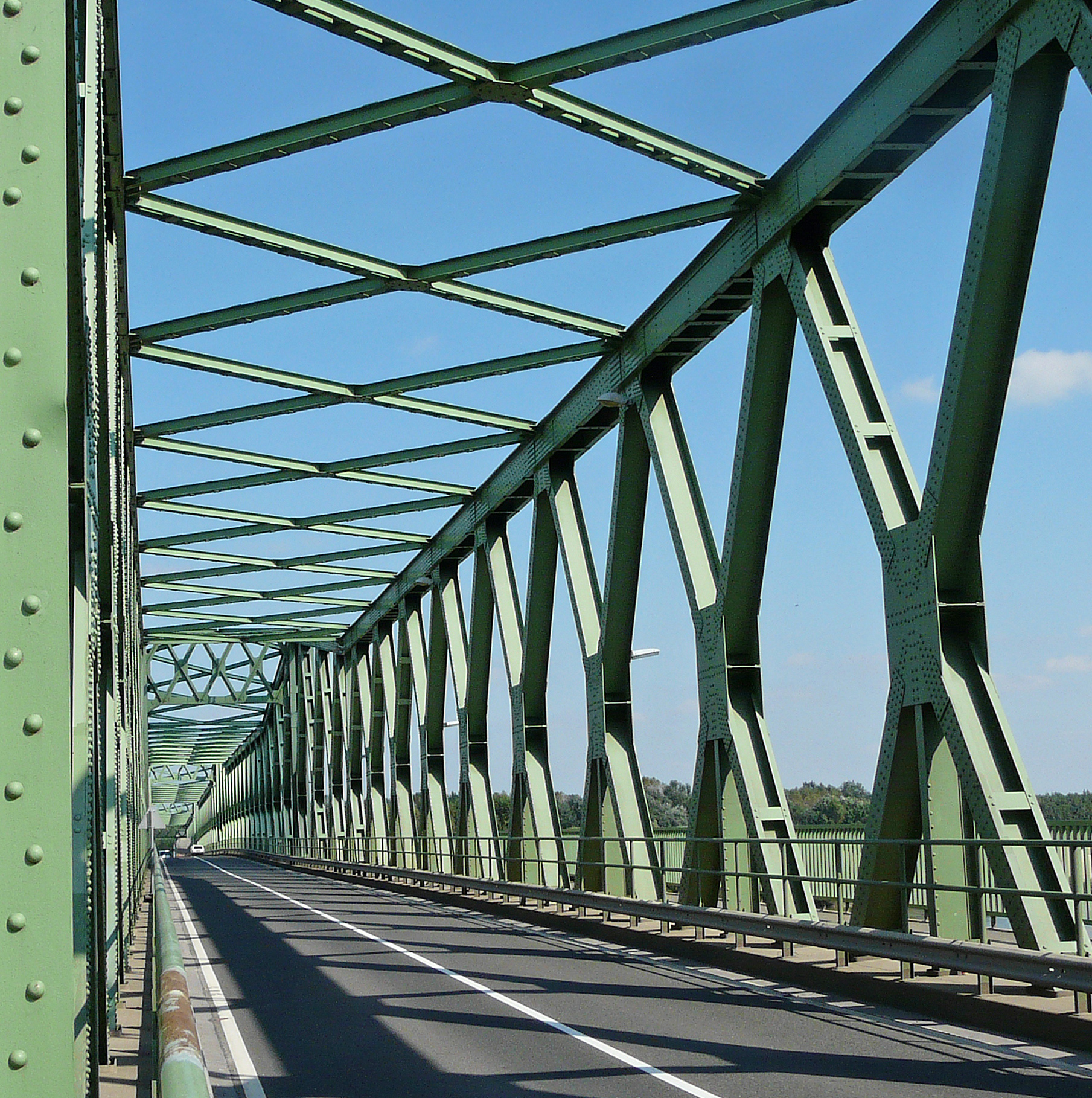 The bridge at Dunaföldvár